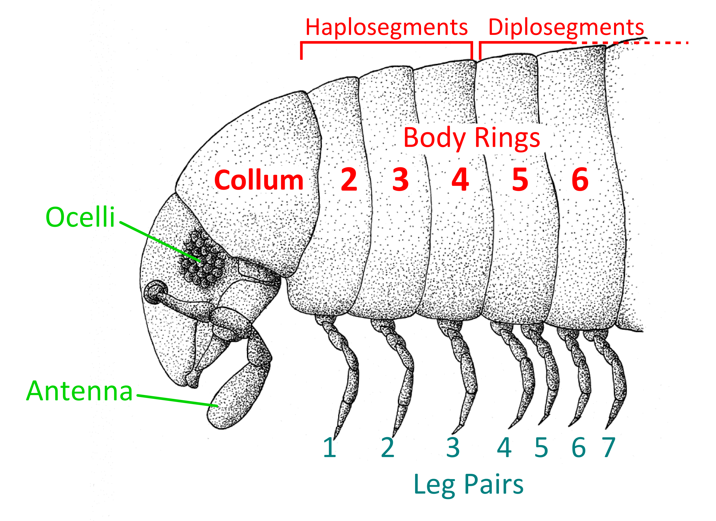 Head and anterior segments of a millipede